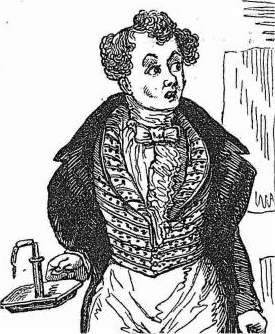 Caricature of John Baldwin Buckstone, printed in the Victorian newspaper Figaro in London 3 December, 1838.